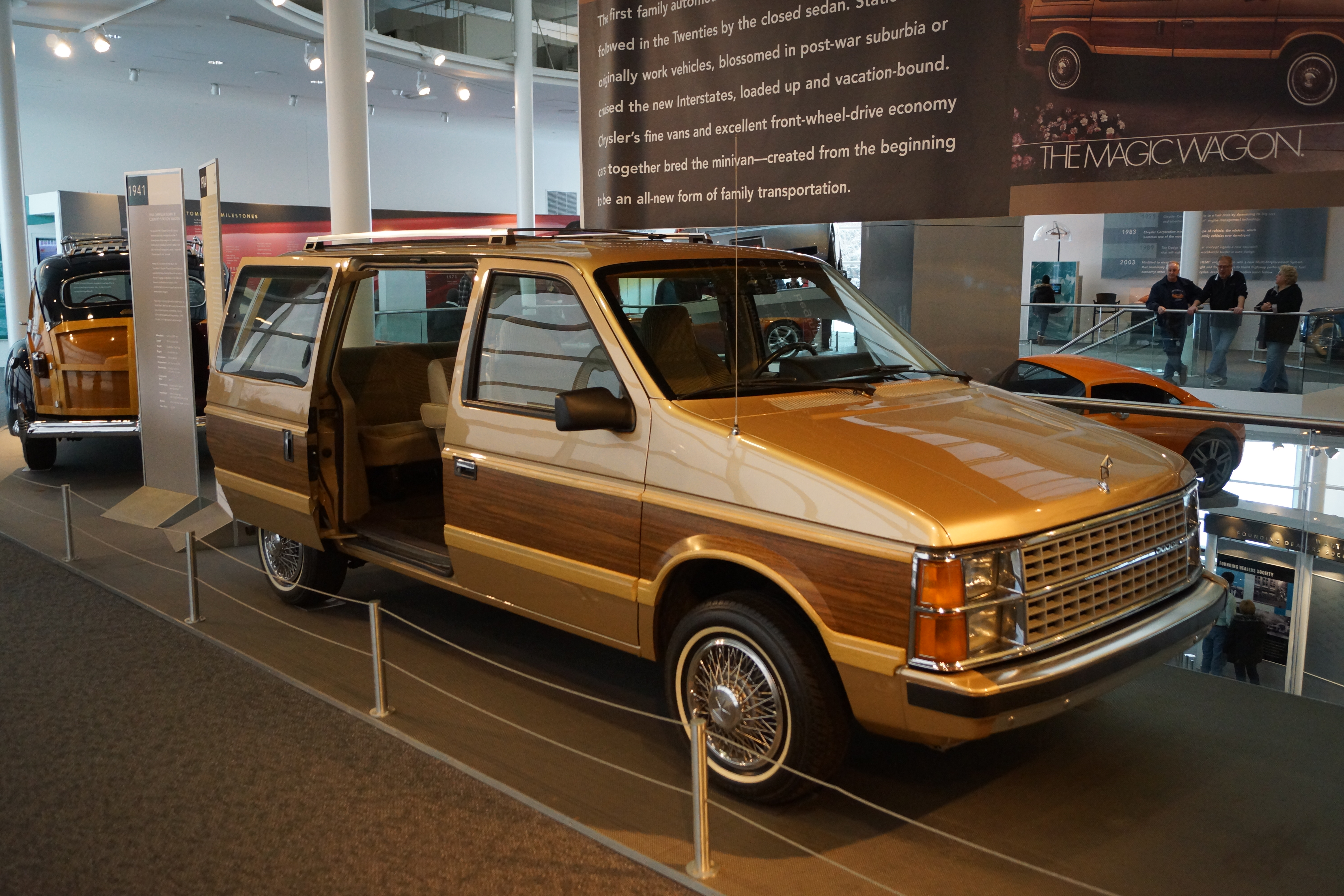 Click here for more car pictures at my Flickr site. Or here for my Car Crazy Tumblr site. Back on November 4th, Hemming's Blog posted an article about the closing of the Walter P. Chrysler Museum . I had missed a couple other opportunities with the WPC Club and others to get into the museum, after it had closed to the public. I did not want to regret missing this last chance to see all of the vehicles before being spread out to other facilities. I trekked from Western Minnesota to Eastern Michigan during Winter Storm Decima. I missed the worst parts of the storm, but still had to endure the aftermath winds, sub zero temperatures and a lake effect snow storm. The trip was difficult, but well worth it. I got to see several Chrysler Corporation concept and show cars that I had only seen pictures of before. There were several clever interactive displays demonstrating various innovations over the years. Since it was the last chance, I duplicated several shots using different camera settings to see what produced better results. I wish I had invested in a strobe light diffuser for all of those indoor pictures. I have not had much experience or success in the past with indoor car images.